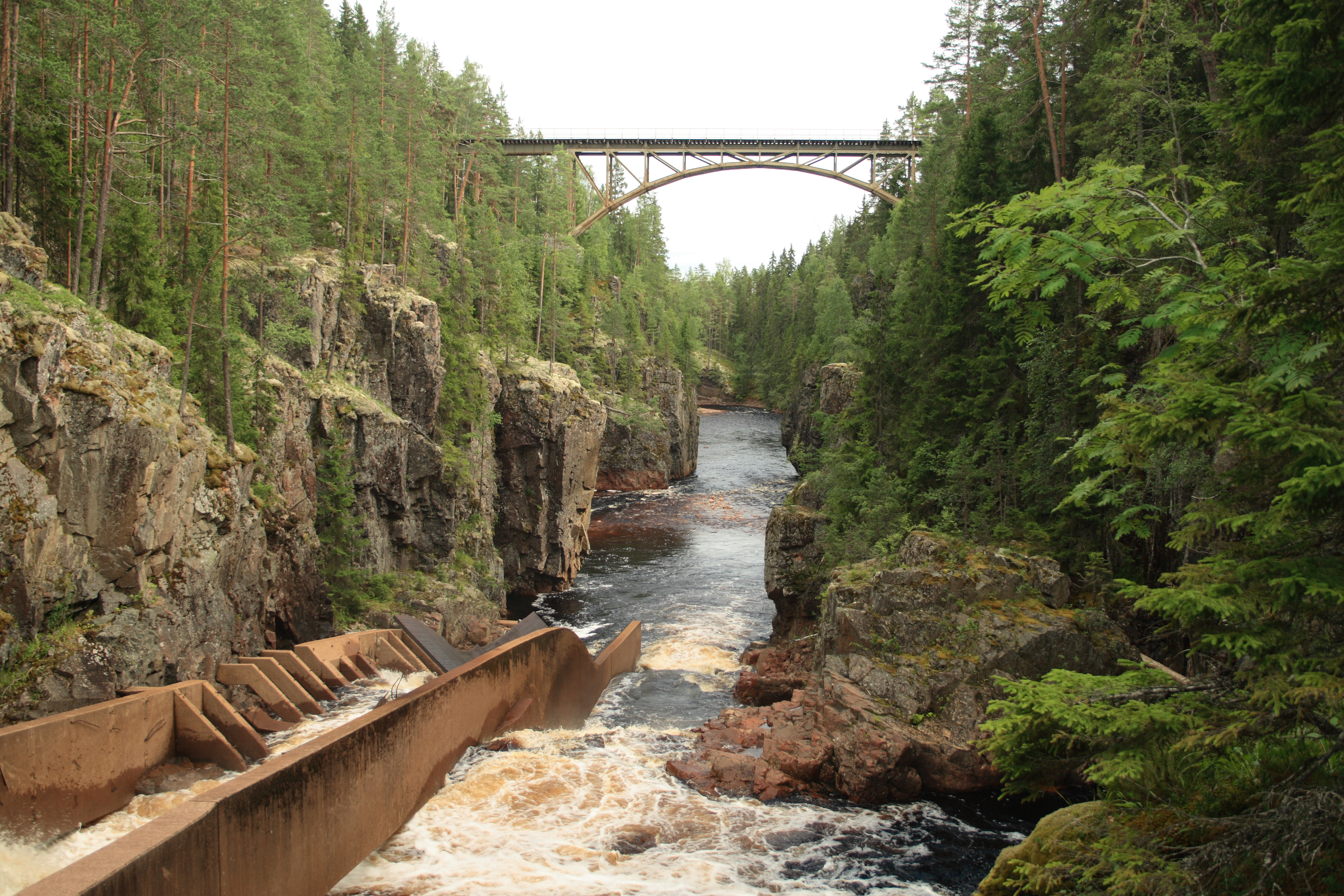 Storstupet (Big Falls), looking downstream to the south-southeast, on the Ämån river in Orsa, Sweden. In the background the Mittbanan railway bridge.